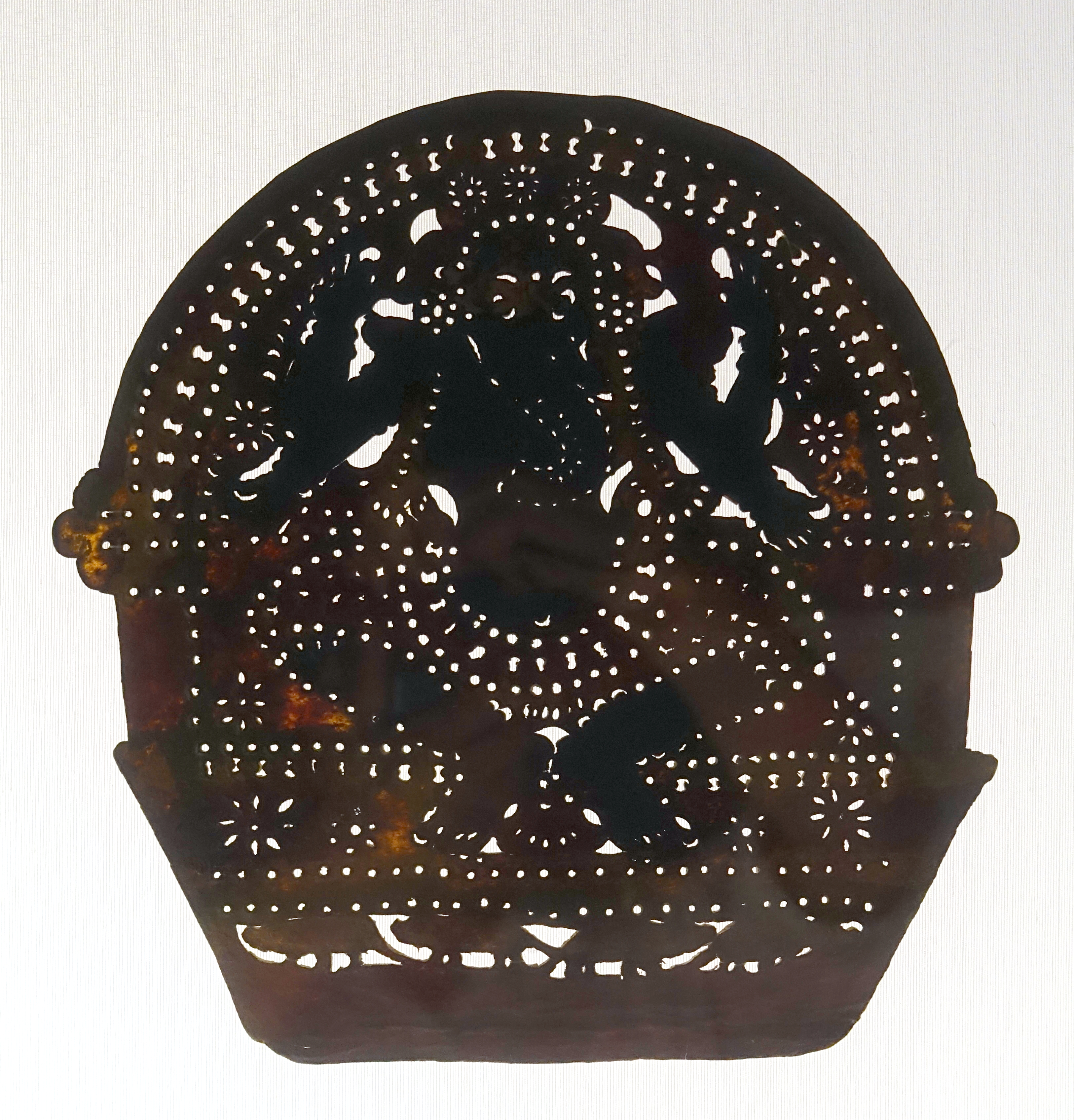 Exhibit in the Museu do Oriente - Lisbon, Portugal. This work is old enough so that it is in the public domain.